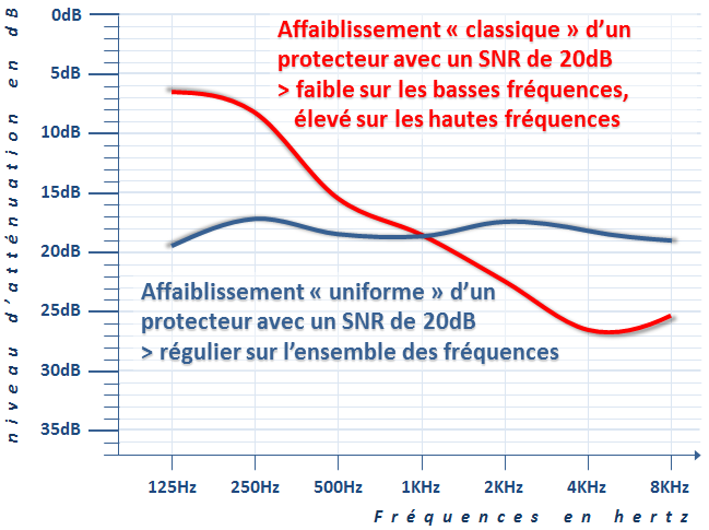 Classic and uniform attenuation - hearing protection against noise